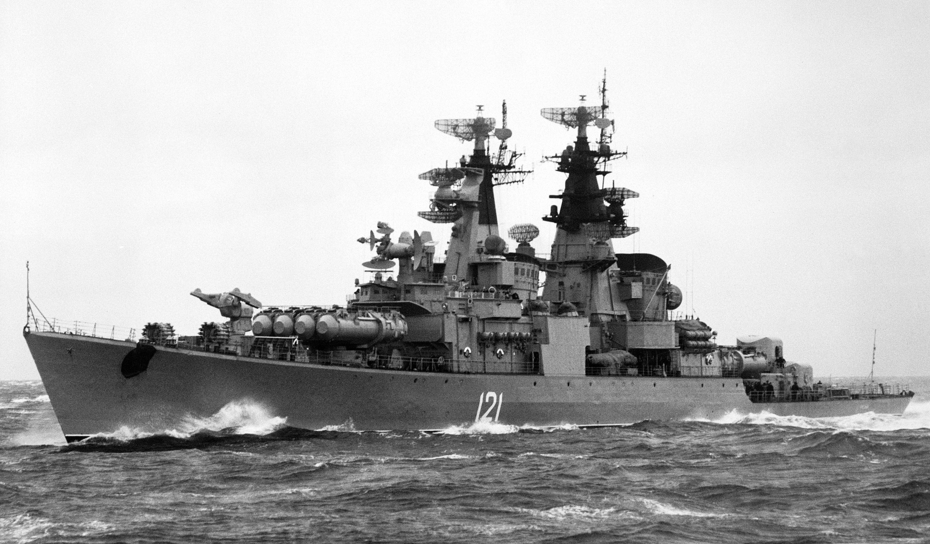 A port bow view of the Soviet Kynda class guided missile cruiser Groznyy underway.